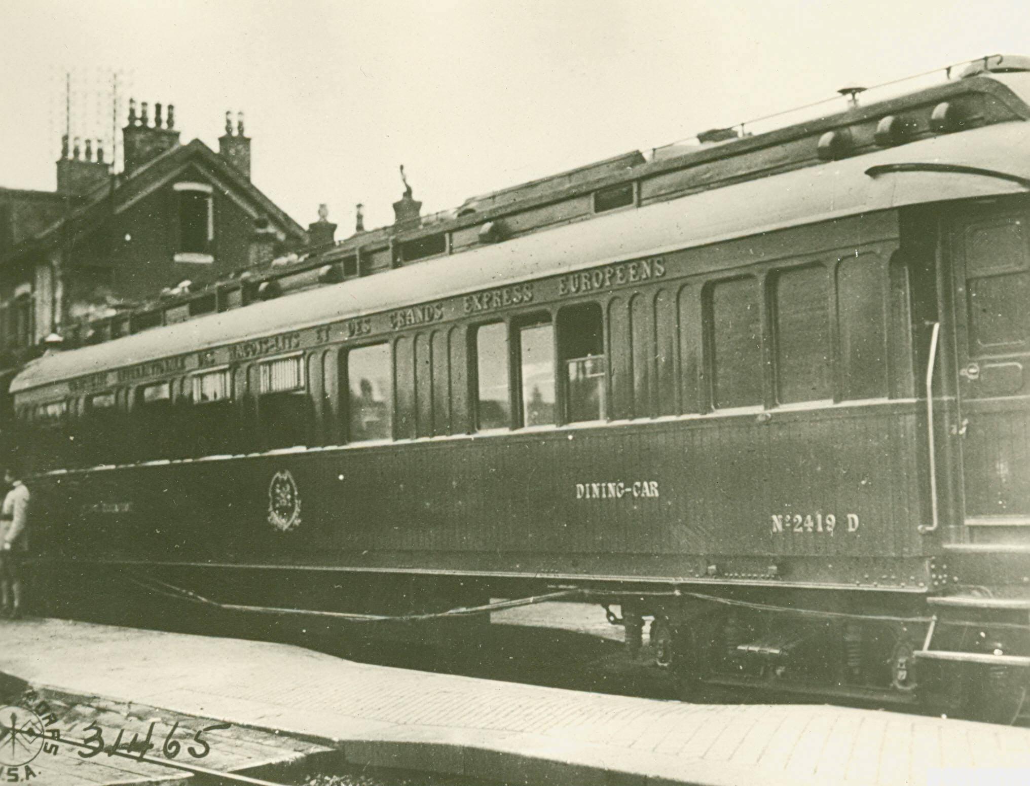 Photo Credit: USAMHI Marshal Foch's Train. Caption: This train car was used to hold negotiations with the Germans and where the armistice was signed at 5 a.m., on Nov. 11, 1918. (WWI Signal Corps Collection).